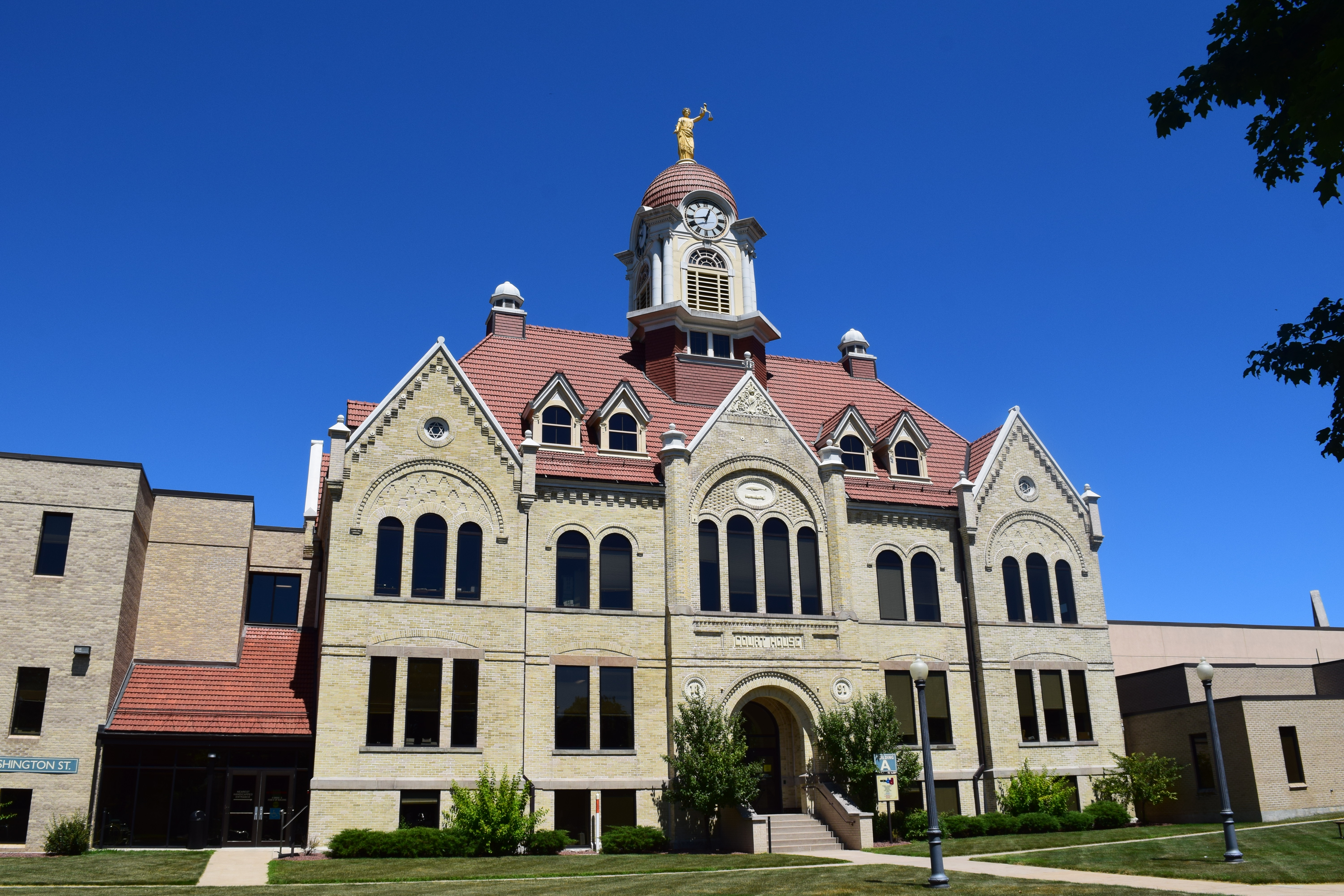 The Oconto County Courthouse, located at 300 Washington St. in Oconto, the county seat of Oconto County, Wisconsin.